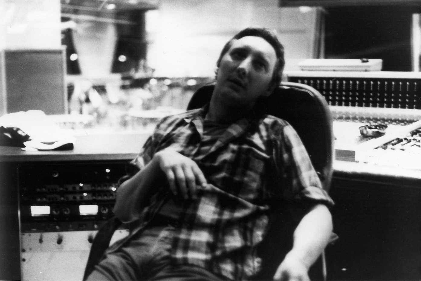 Iain Burgess at the Chicago Recording Company (CRC) studios during the recording of the Get Smart! album "Swimming With Sharks". Photo taken by Frank Loose, the band's drummer.